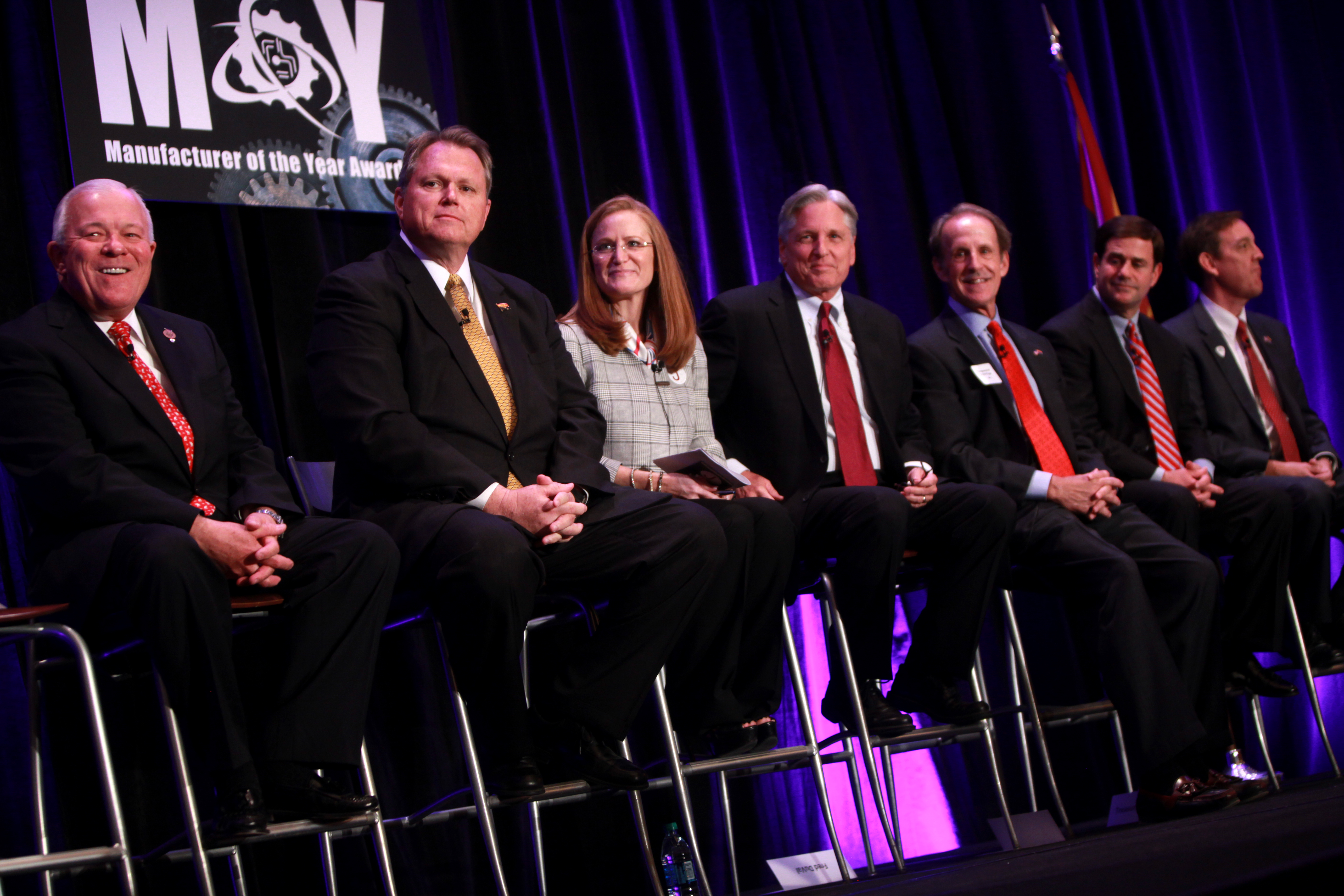 Candidates for the office of Governor of Arizona speaking at an event in Phoenix, Arizona hosted by the Arizona Chamber of Commerce & Industry on May 14, 2014.